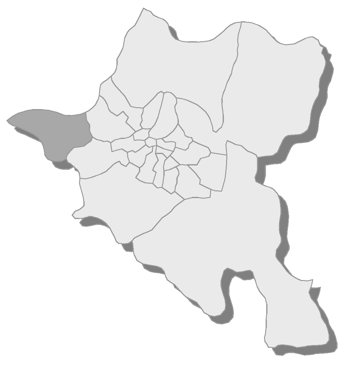 Sofia, municipality Bankya